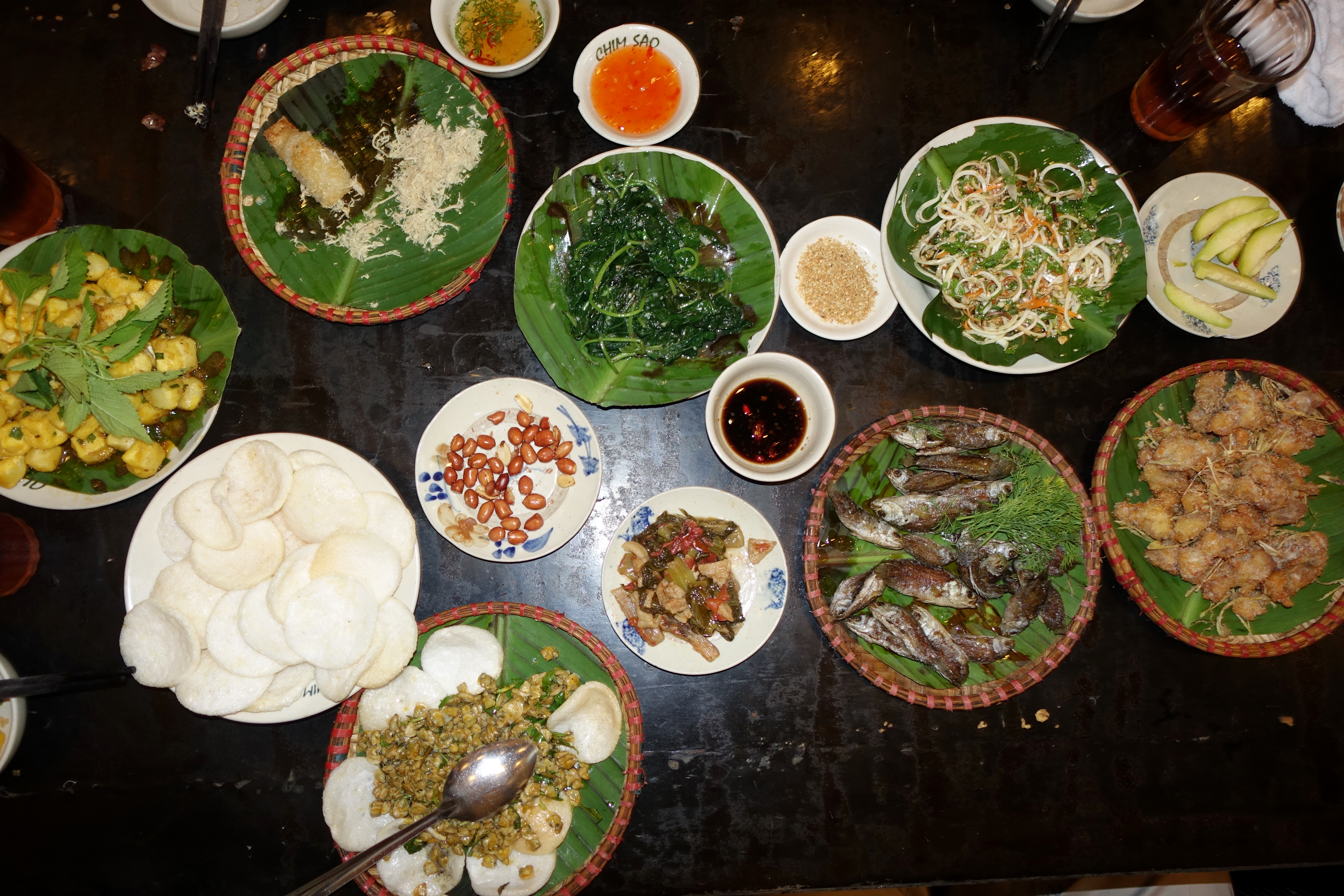 A splendid lunch in Hanoi, Vietnam.